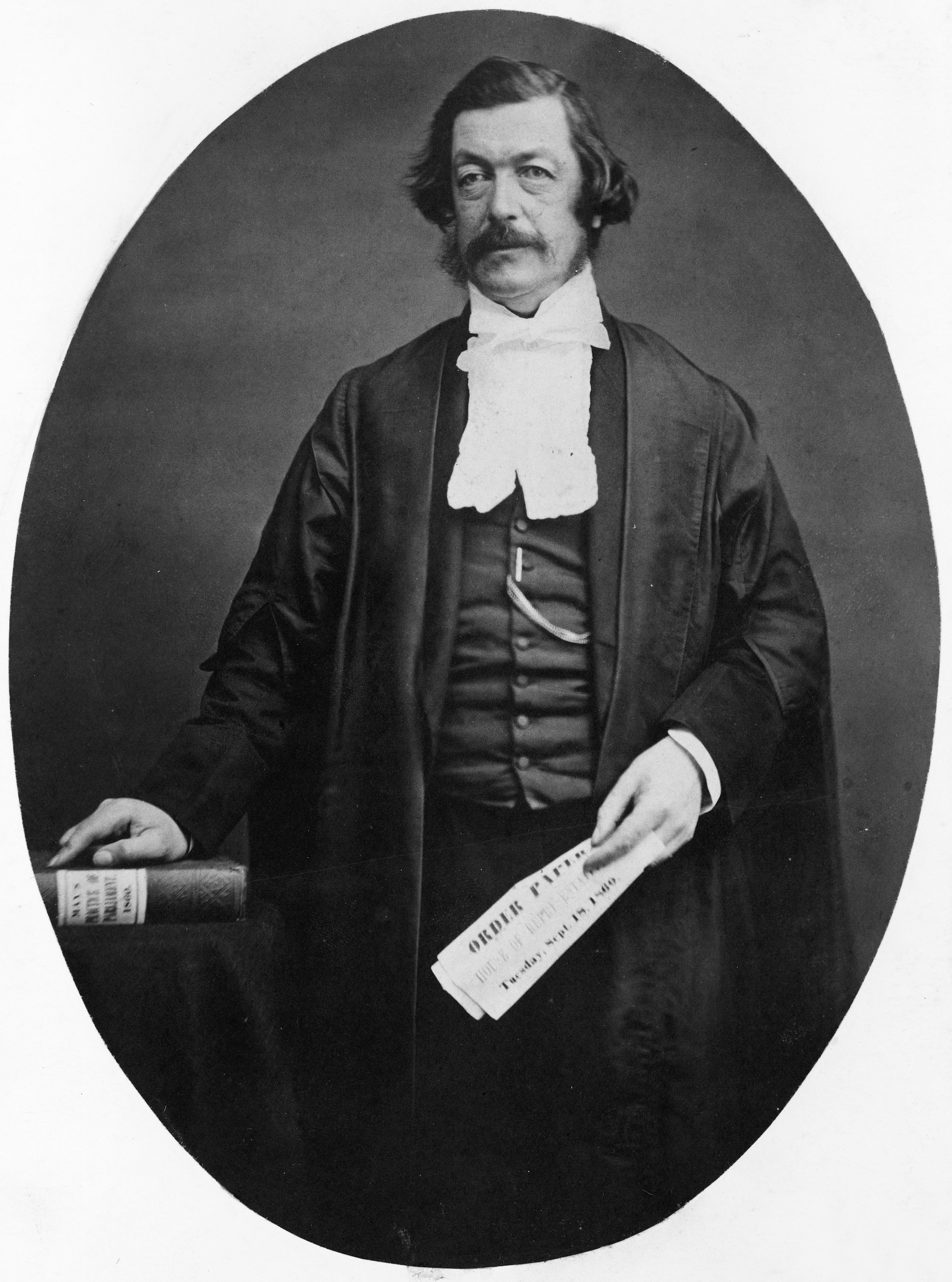 Portrait of Sir Charles Clifford, when he was Speaker of the House of Representatives, photographed circa 1860 by John Nicol Crombie of Auckland. Sir Clifford holds an order paper dated Tuesday, 18 September 1860.